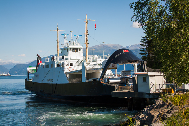 MF Sunnfjord